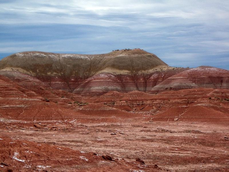 Anacleto and Allen fms. (Upper Cretaceous) in Auca Mahuida, Neuquen, Argentina.